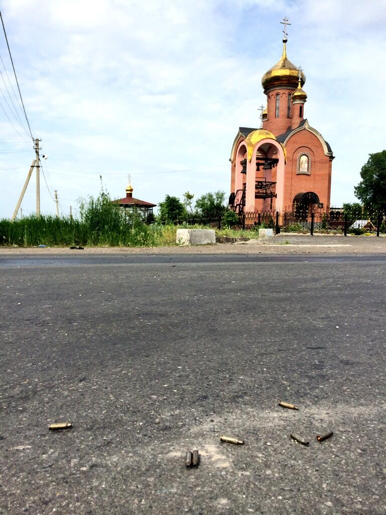 Photograph of Church of Holy Epiphany in Karlovka, Donestk Oblast, Ukraine. Photograph taken by, and released for use with attribution by Alex Ryabchyn to uploader. Shells on road from fighting between Ukrainian forces and pro-Russian separatists.